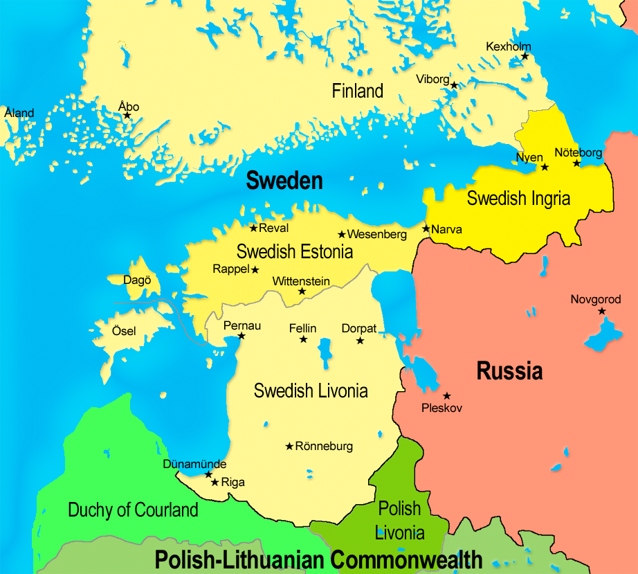 The Baltic provinces of the Swedish Empire in the 17th century, with English country names and place names that were used at the time. A Swedish version also exists: Sw BalticProv sv.png